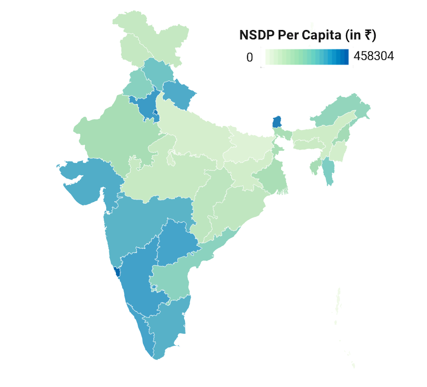 Analytical map representing the NSDP Per Capita of Indian states and UT's, based on data provided by the Indian government, for the year 2018-19.